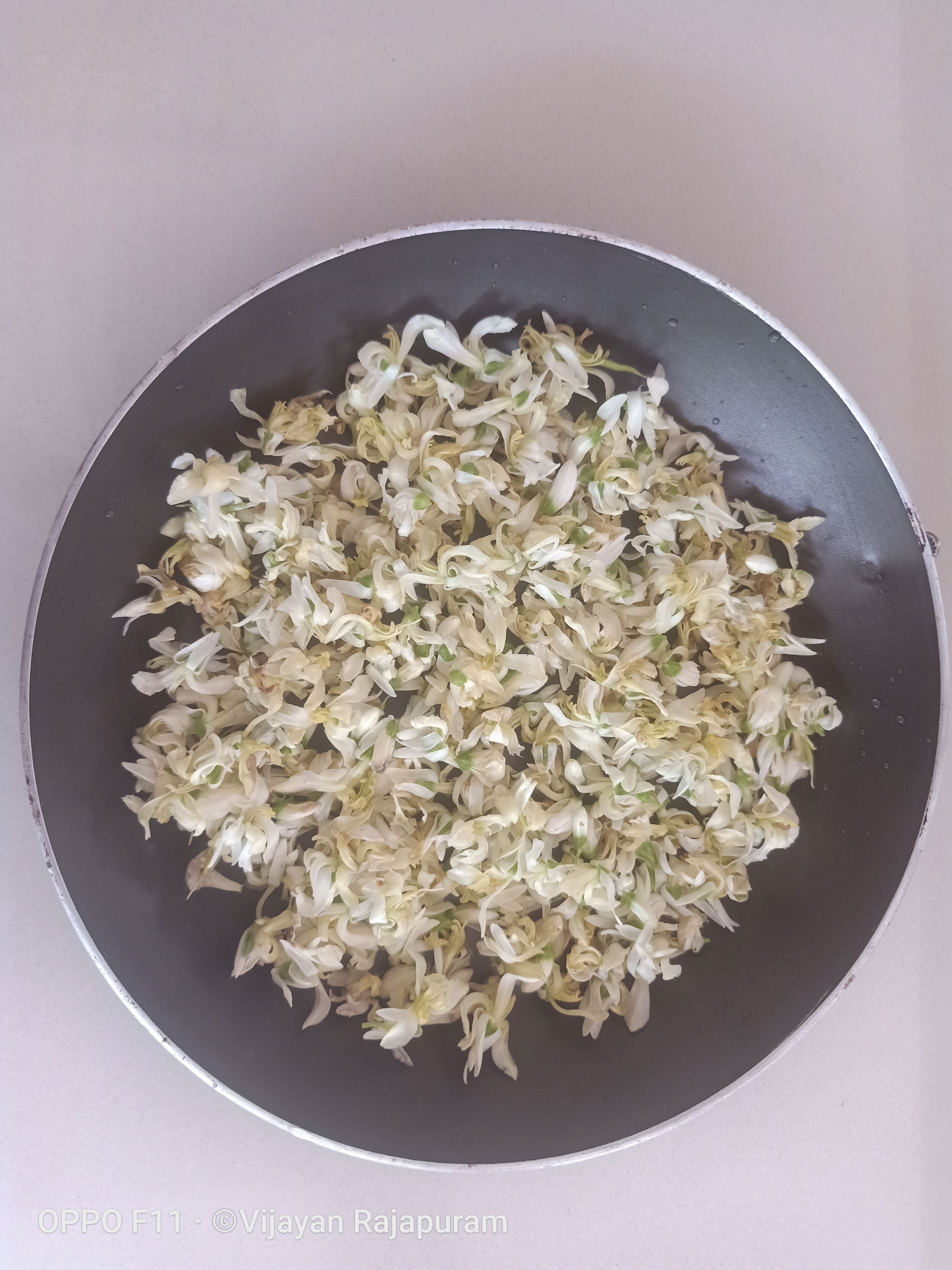 Moringa Oleifera flower kept ready for cooking.